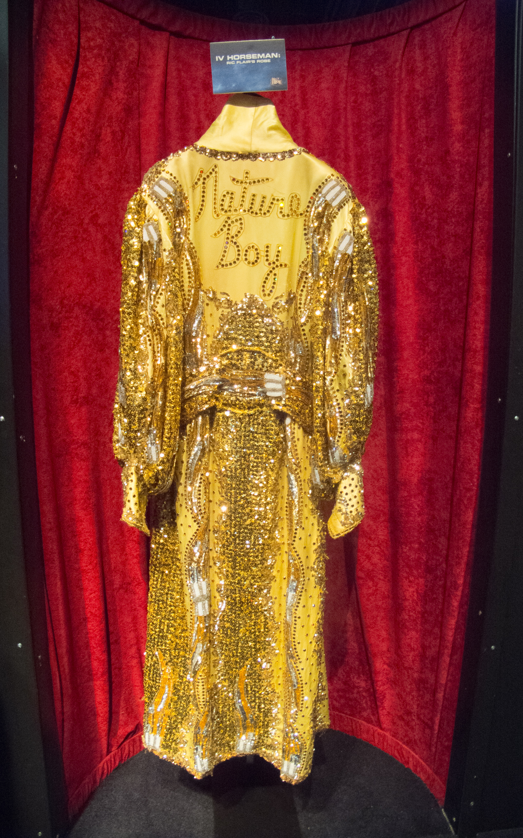 WWE Fan Axxess - Classic Memorabilia/Ring Gear